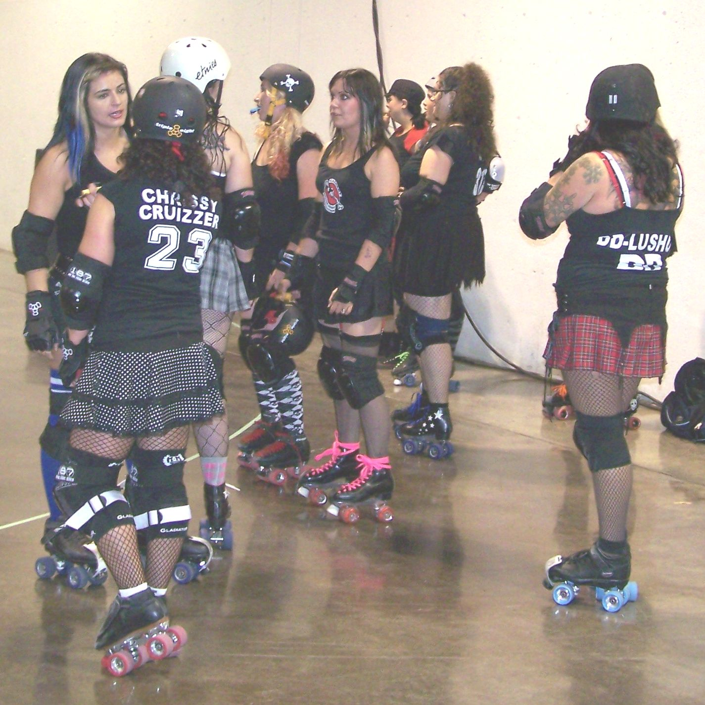 Some of the "Roller Derby Girls" of the Calgary Roller Derby Association at the 2007 Calgary Tattoo & Arts Festival held in the Calgary Roundup Centre, 1410 Olympic Way SE Calgary, Alberta, Canada.